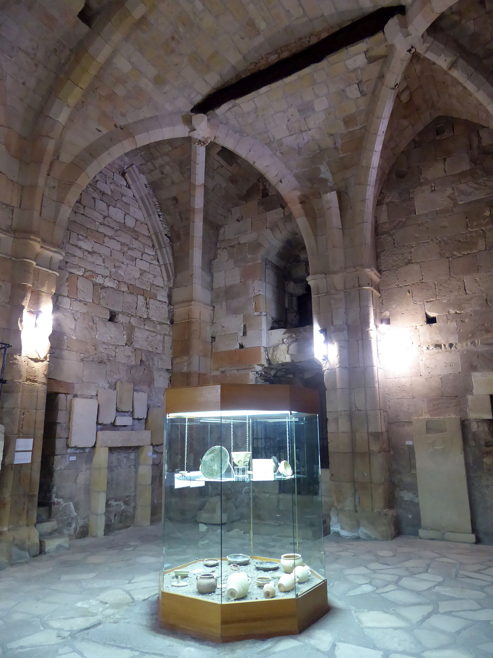 Gothic Hall of Limassol castle - Medieval Museum